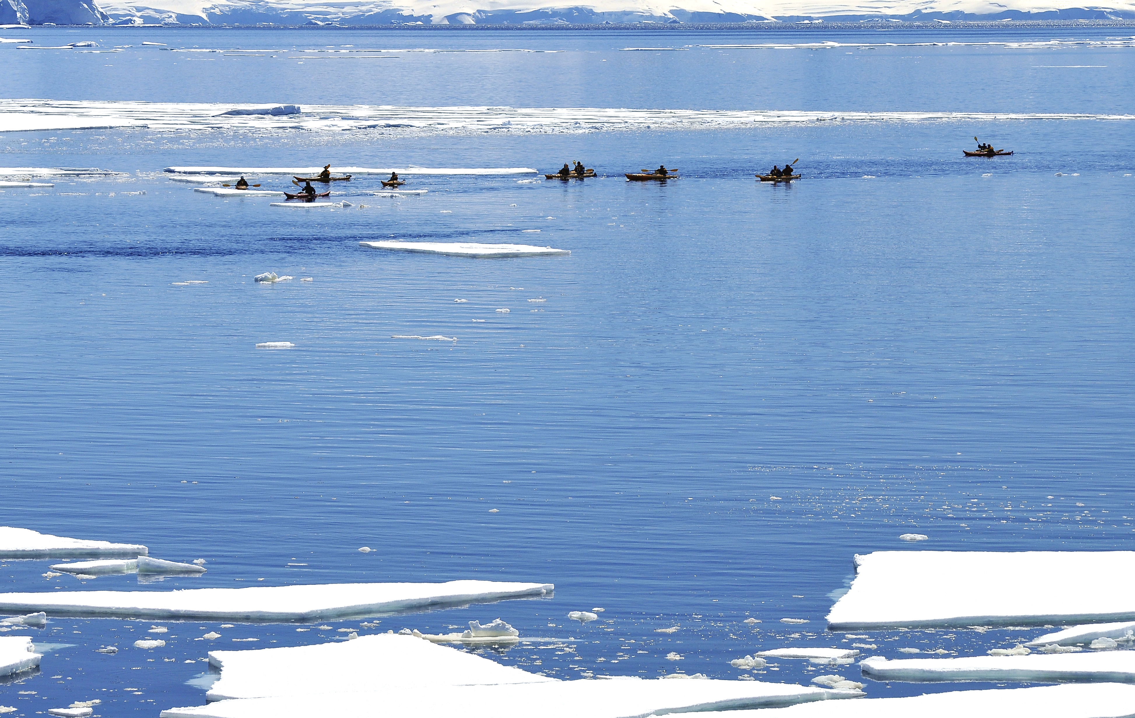 Canoeing among the cracked ice filed, South Shetland Islands, Antarctica